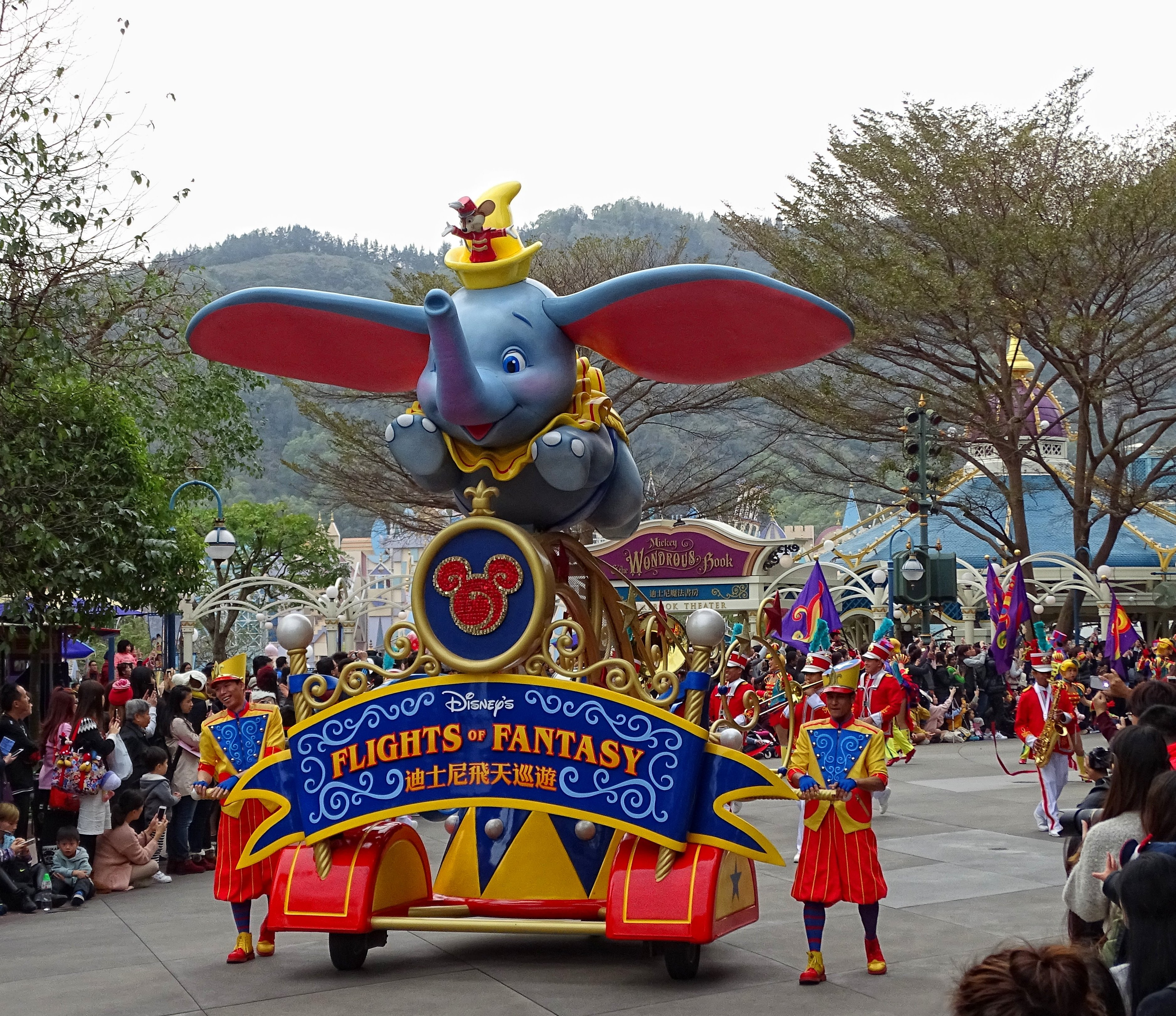 The front of the Flights of Fantasy parade in Hong Kong Disneyland as of 2016.